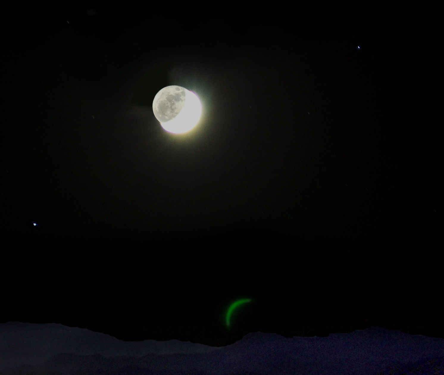 The dark side of the crescent moon is revealed in this 10 second exposure on 07-05-2019 at 9:19pm. This phenomena is called earthshine.